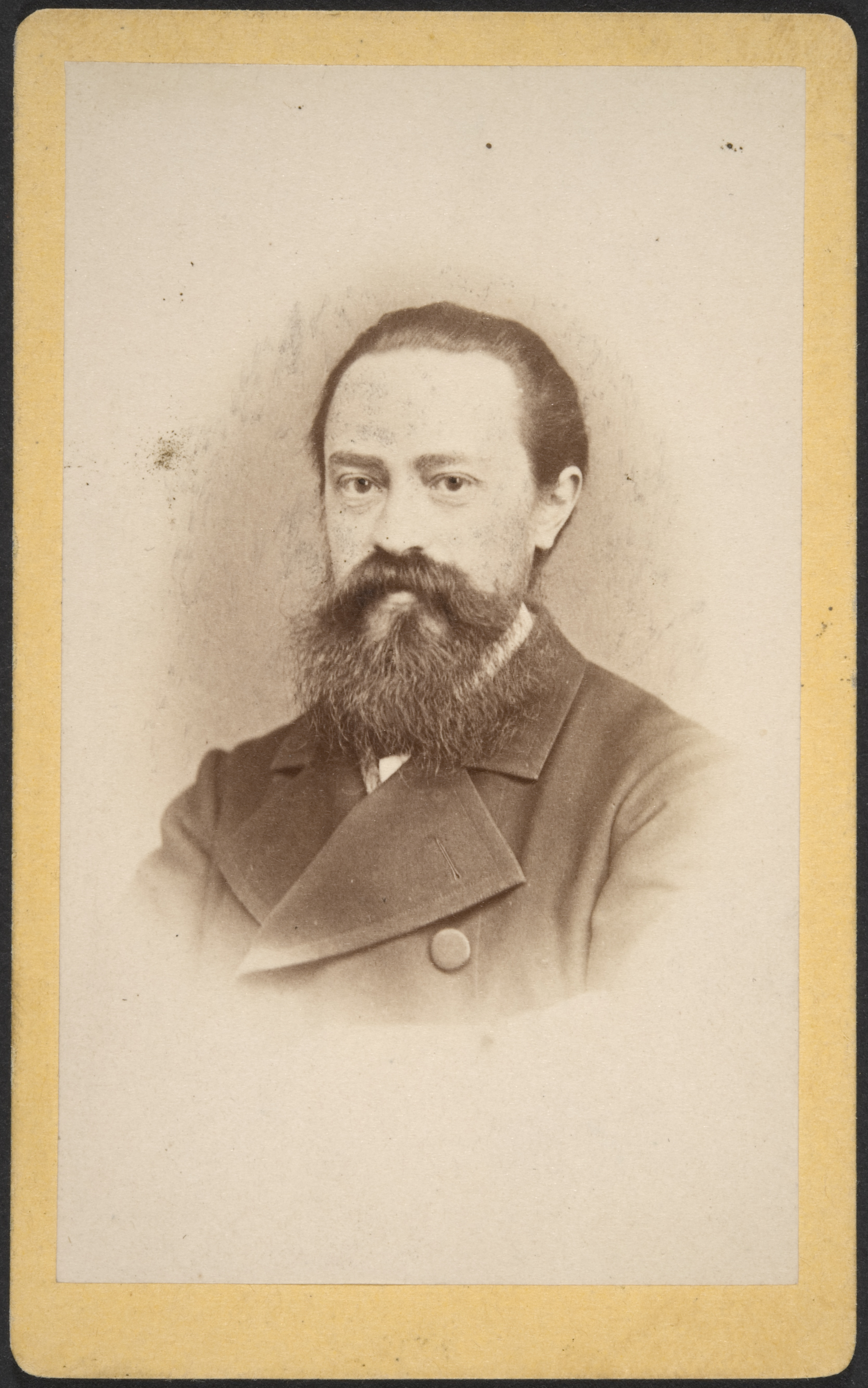 Photograph of the Finnish physician Georg Asp (1834–1901).